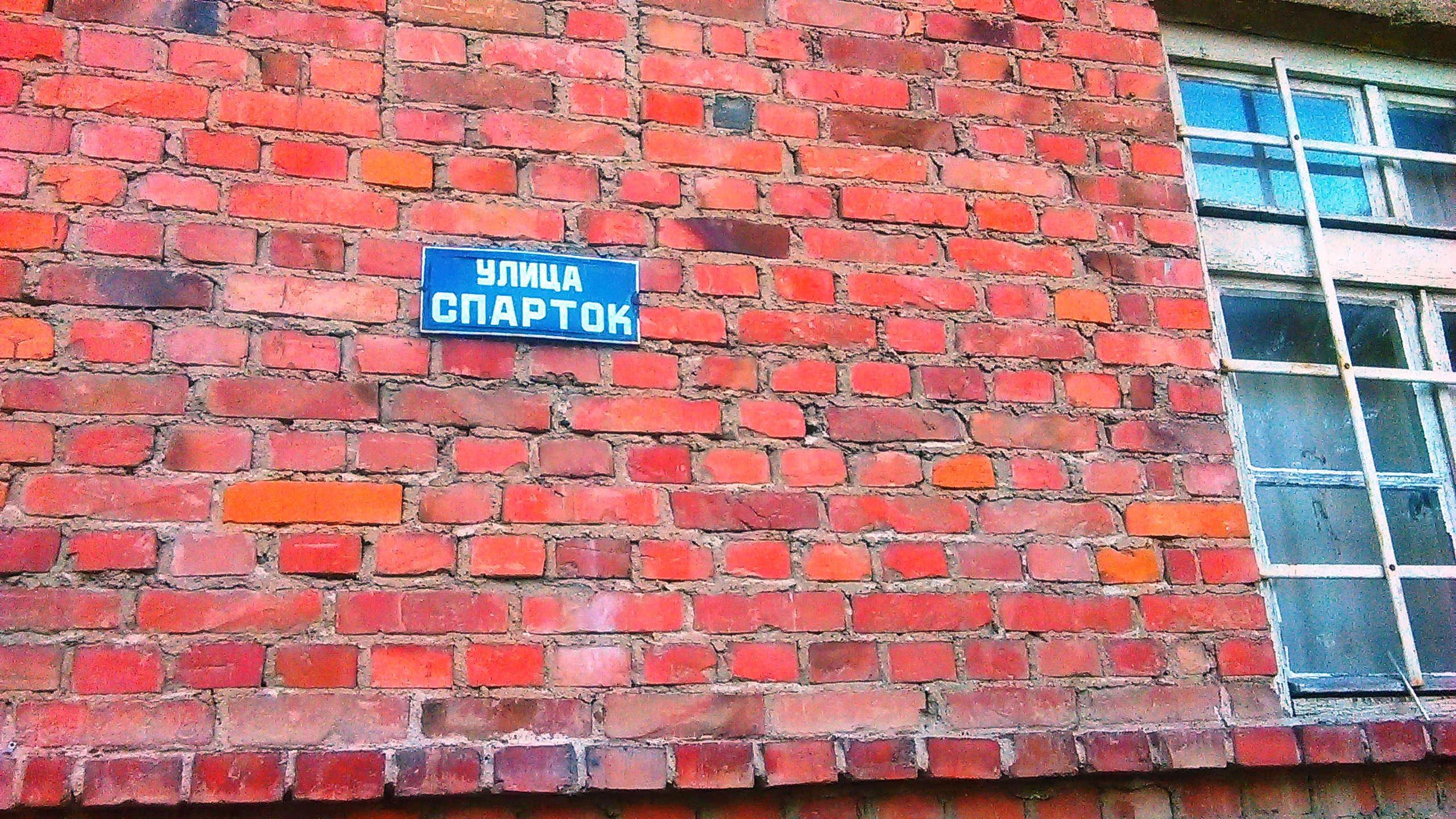 A sign of Spartok Street in Yambol, Bulgaria